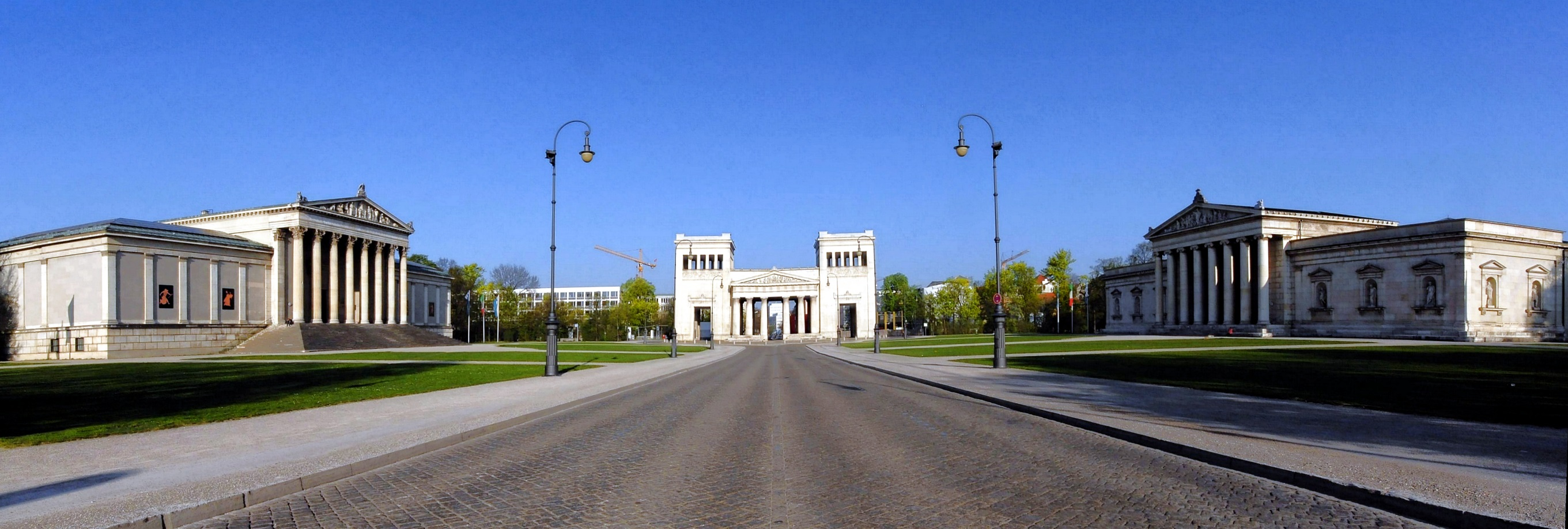 Munich, Place "Königsplatz"